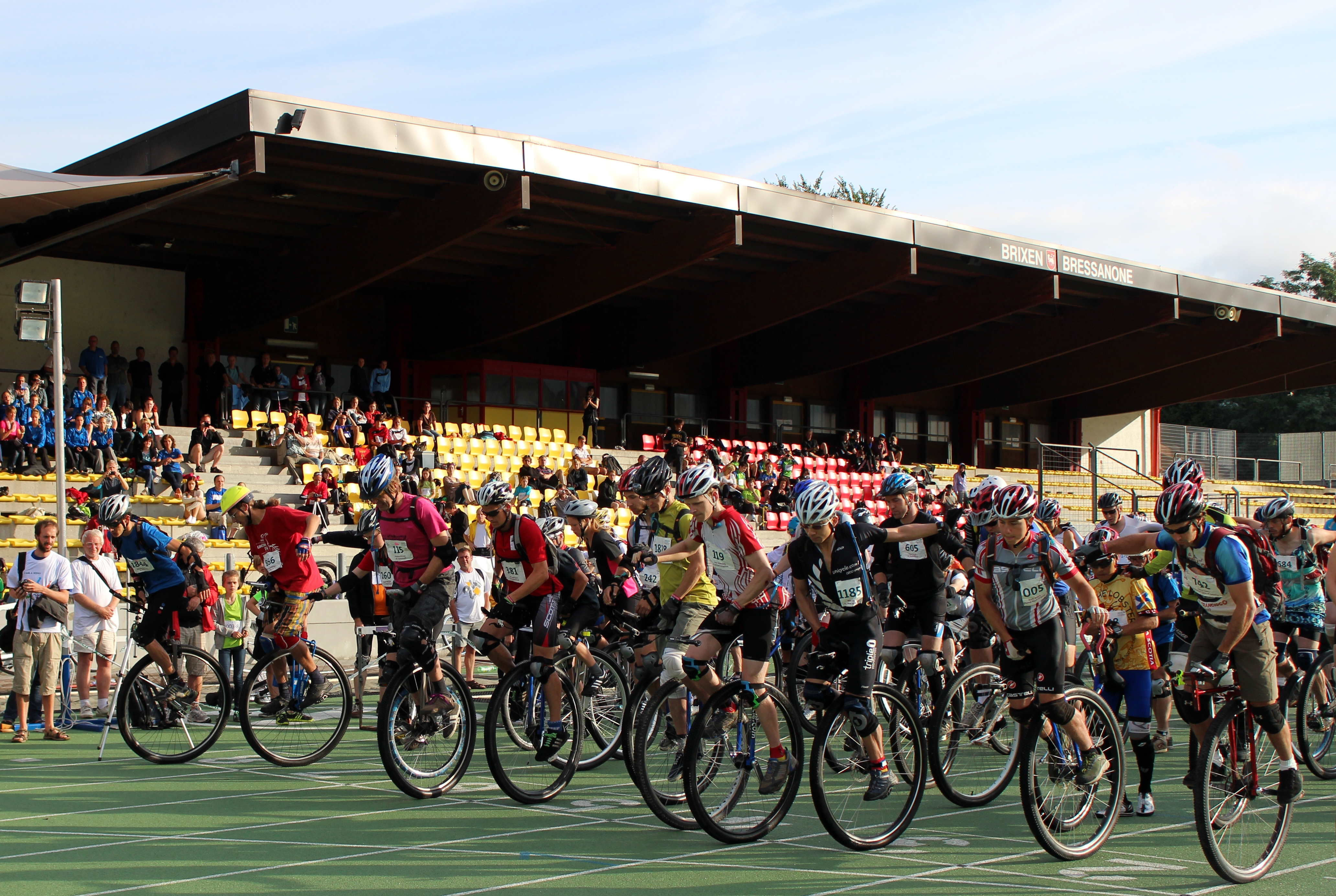 Start of the 100 km race held as a long distance race at the unicon 16 (unicycle convention) in Brixen 2012. The unicycles seen are all 36 inch unicycles.